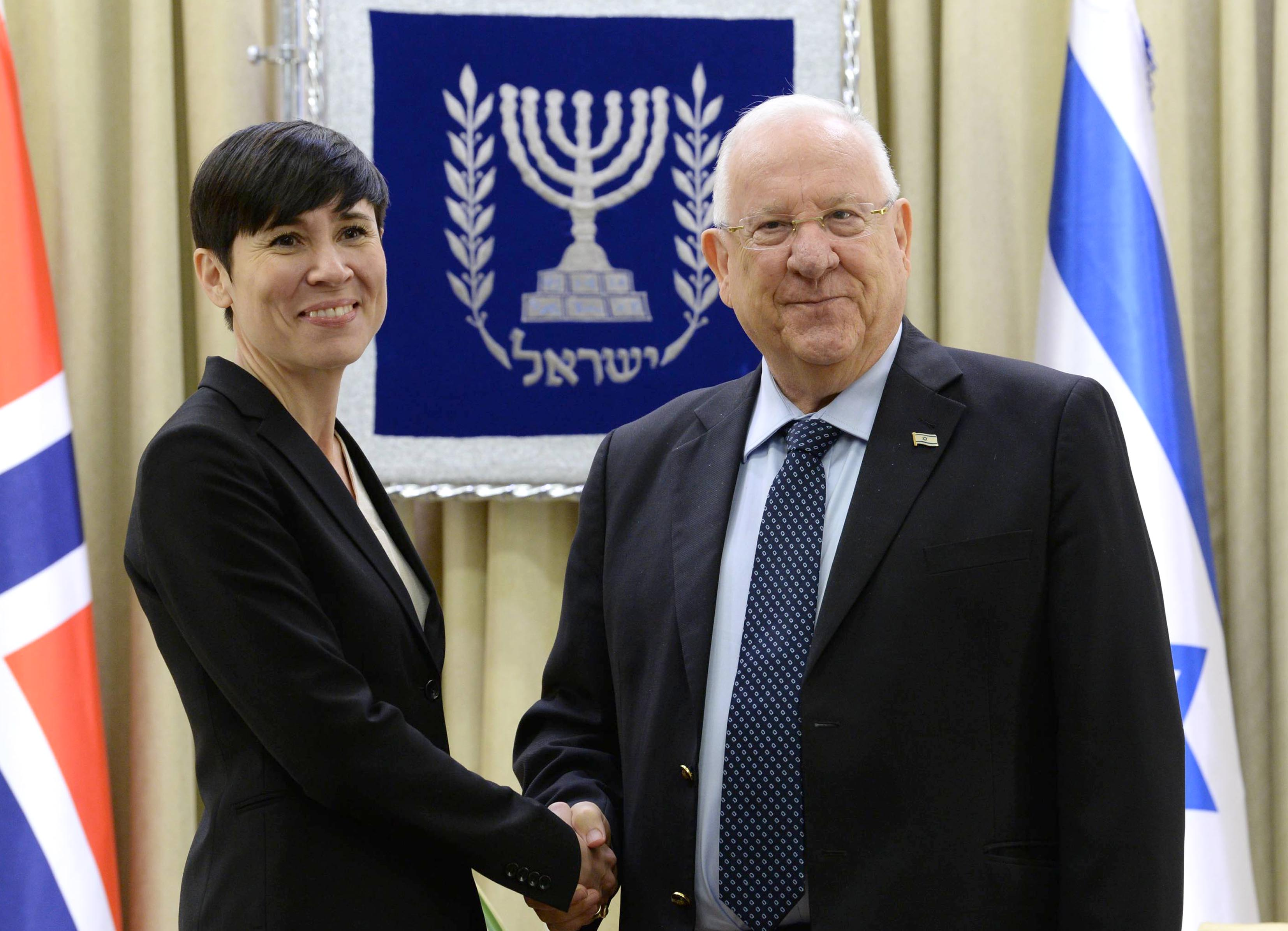 President of Israel, Reuven Rivlin, at a working meeting with Norwegian Foreign Minister, Ine Marie Eriksen Søreide, who visited Israel. Sunday, January 7, 2018. Photo Credit: Mark Neiman / GPO.